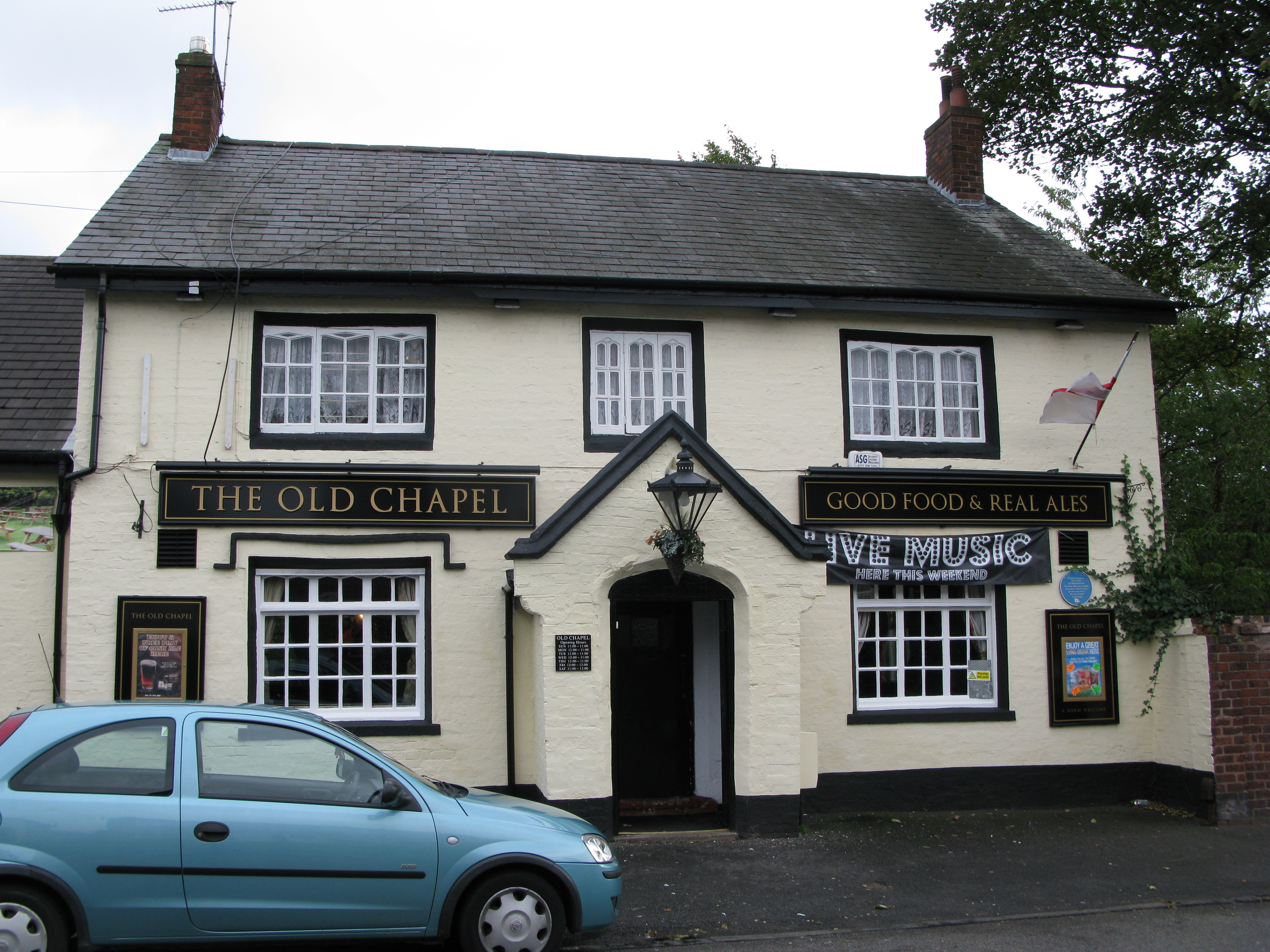 Grade II